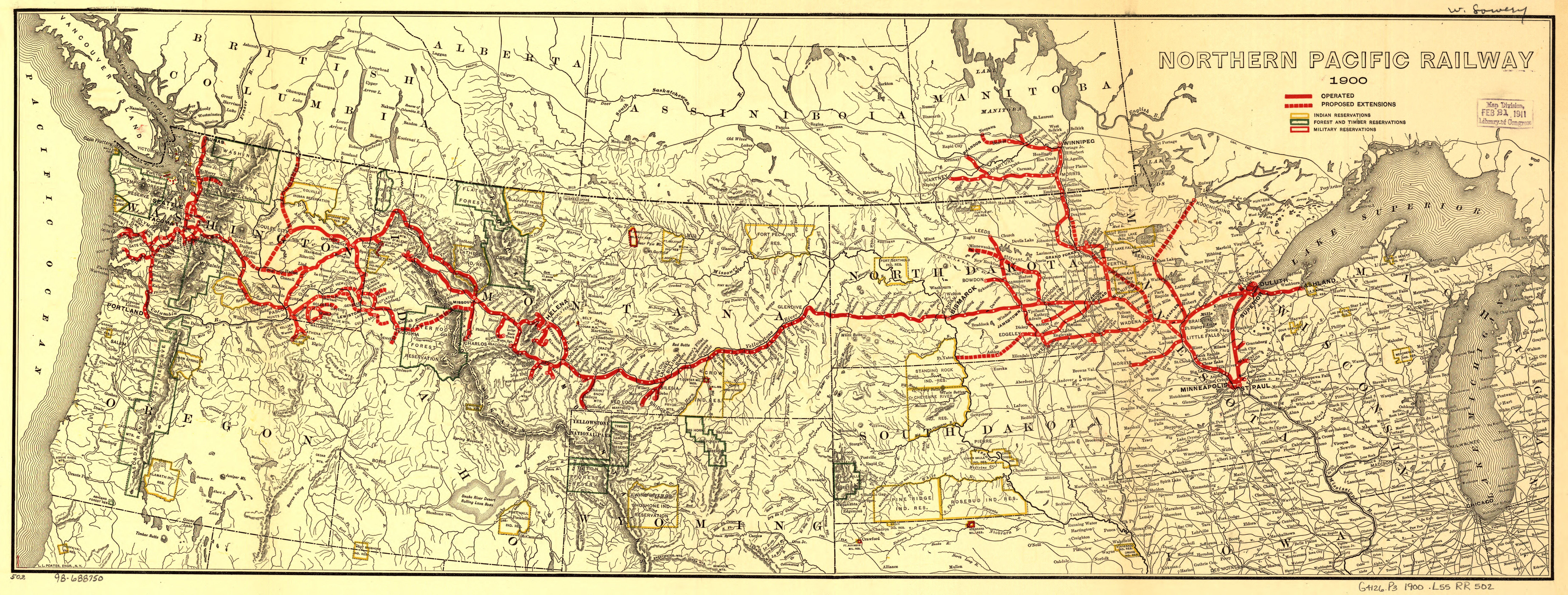 Map showing the Northern Pacific Railway route circa 1900.